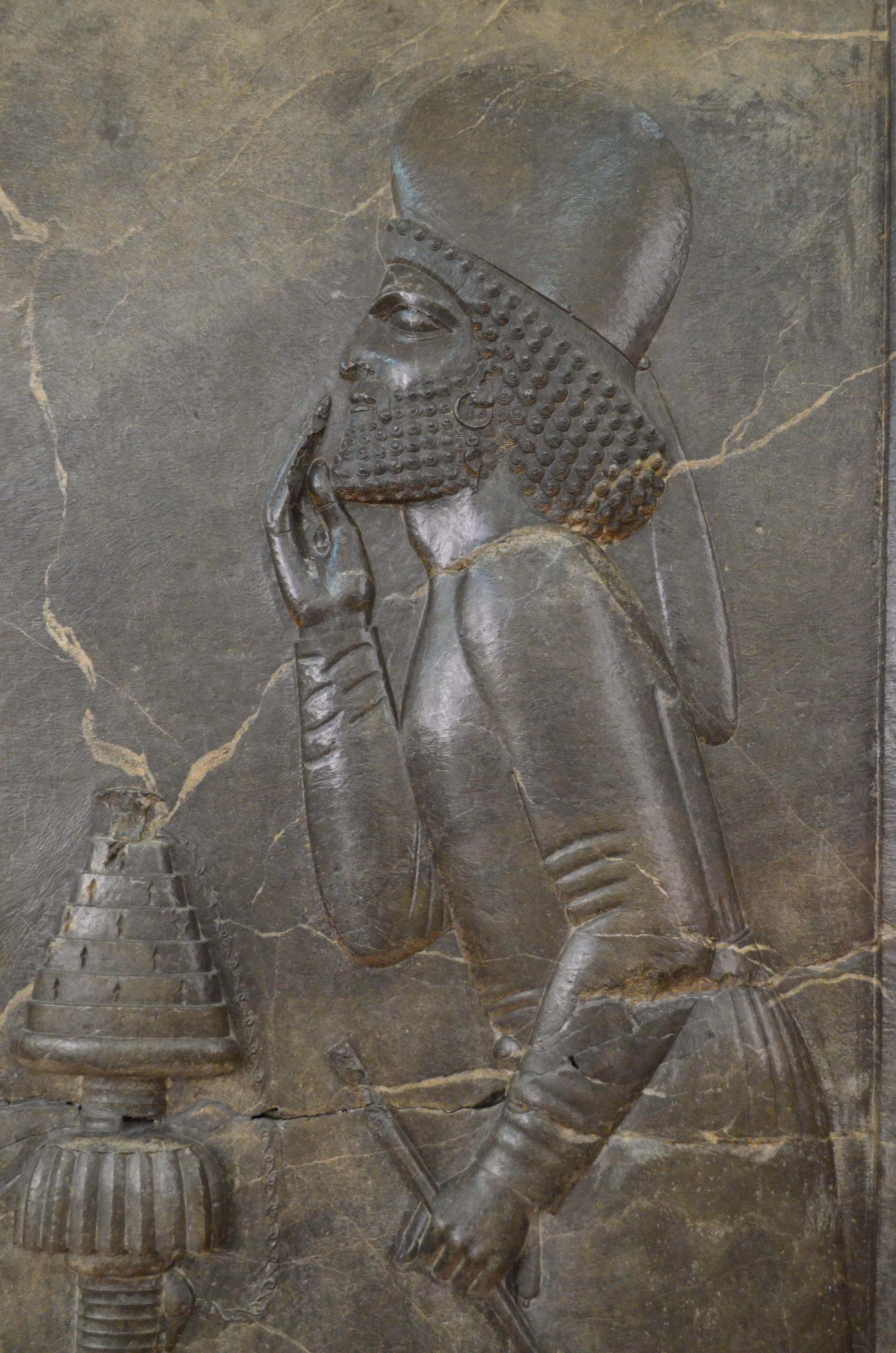 National Museum of Iran National Museum of Iran Native name